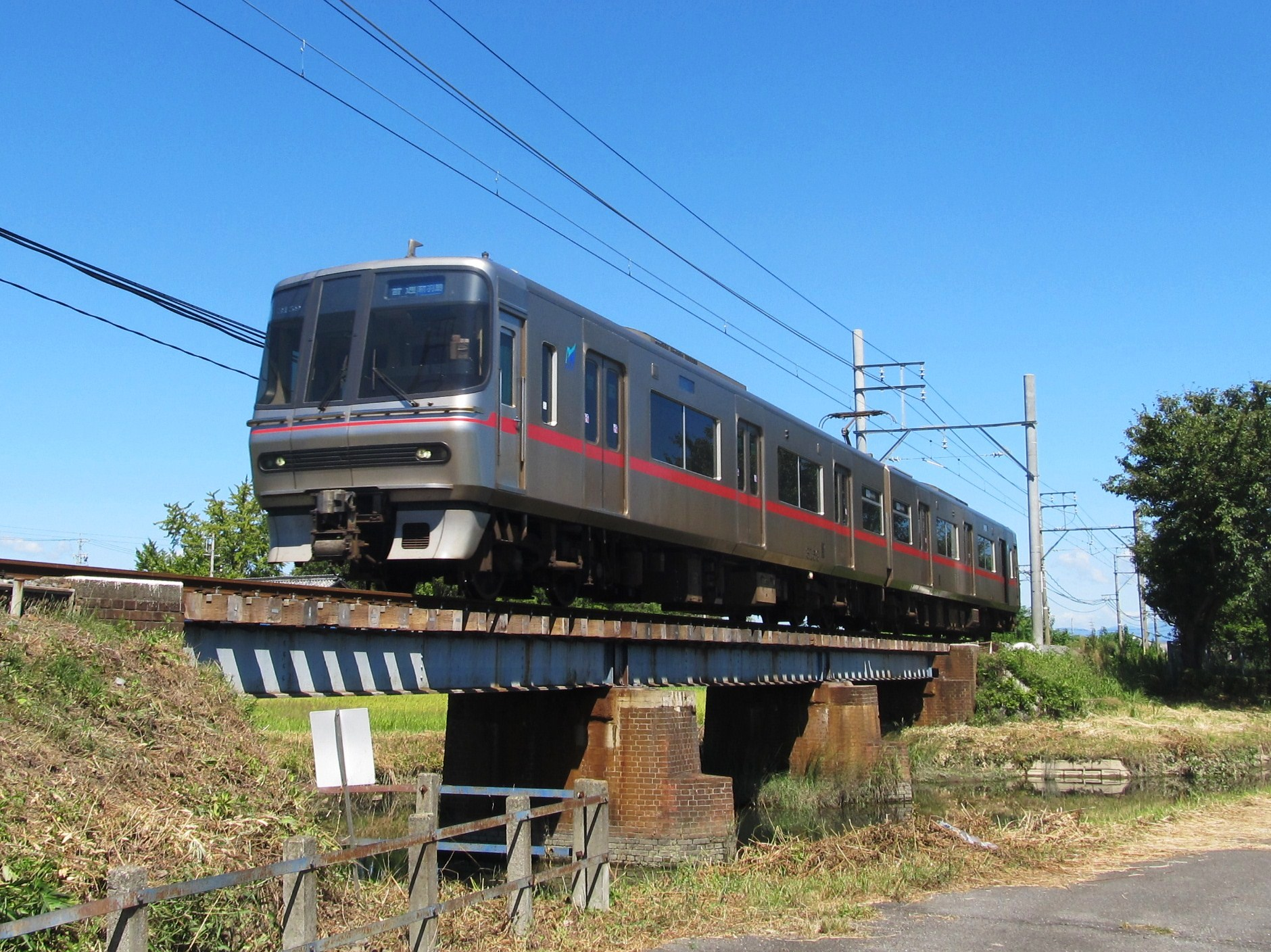 Train passes a No.7 bridge for relief open. In Takehana Line.